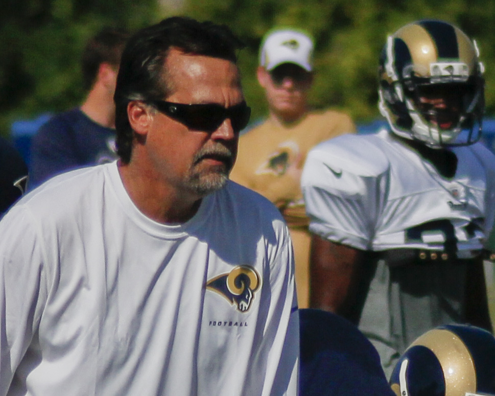 Rams Head Coach Jeff Fisher, 2013.